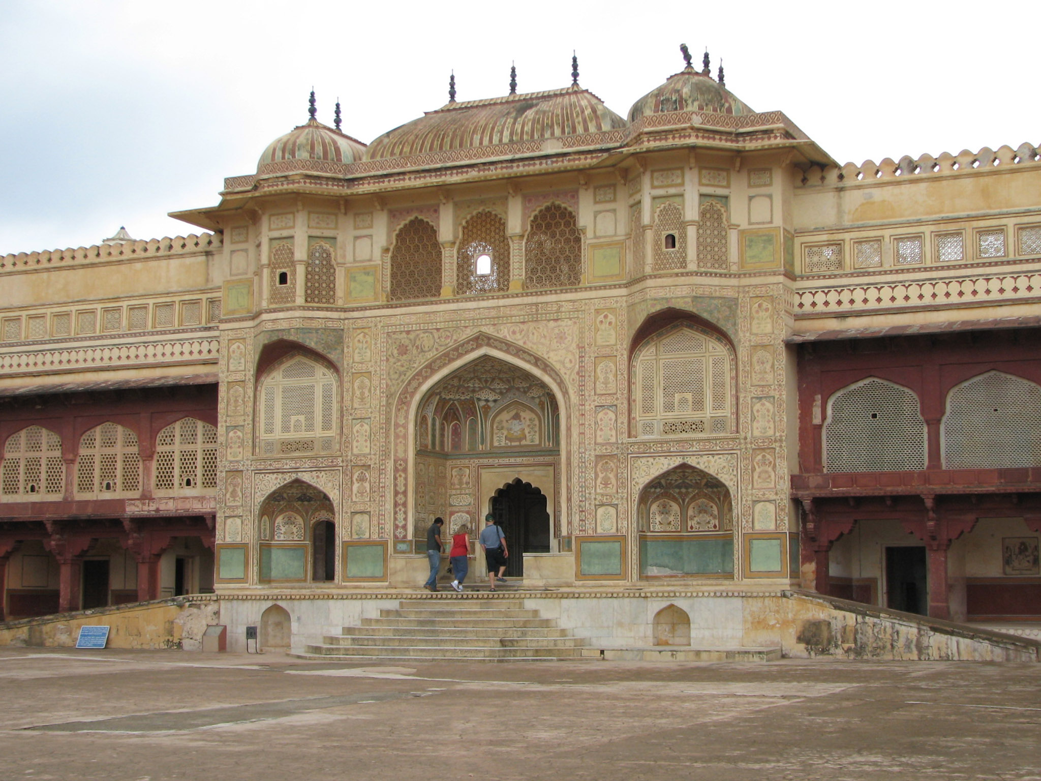 The bejeweled and intricately adorned main entrance of the palace.